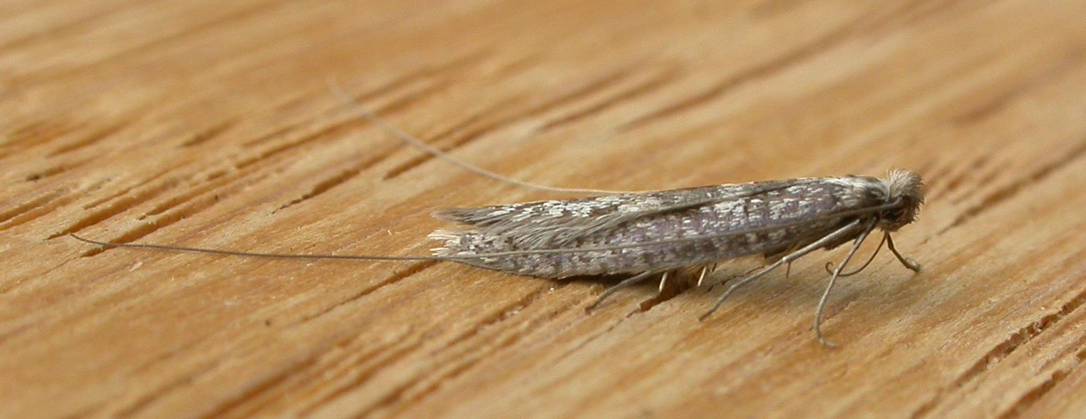 Ceromitia iolampra (Turner, 1900), to MV light, Aranda, ACT, 14/15 April 2010